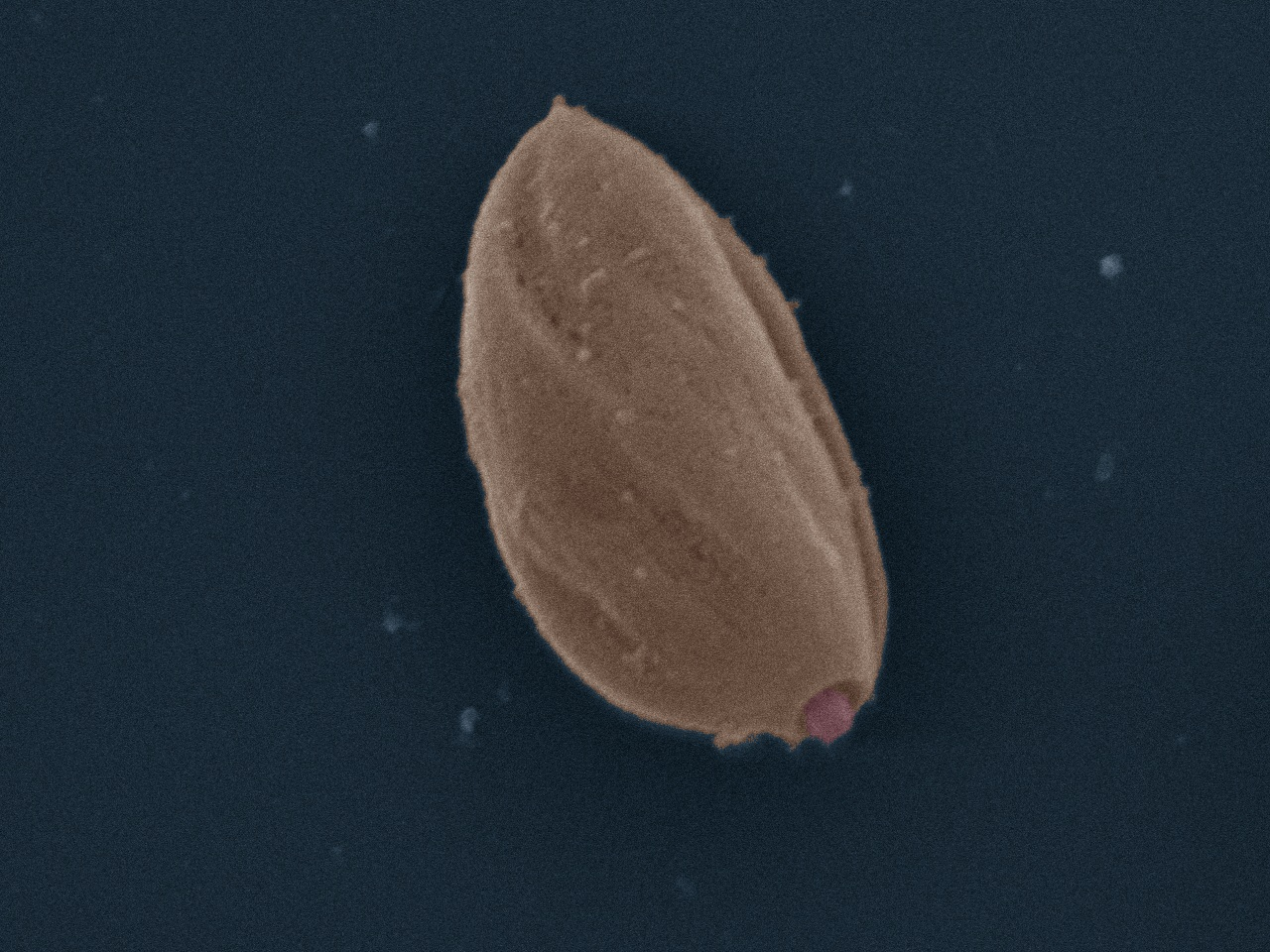 False colour SEM of promastigote form (found in macrophages in the mammalian host in the gut) Leishmania mexicana. 219 pixels/μm. The cell body is shown in orange and the short flagellum, protruding from the bottom of the cell, is in red.